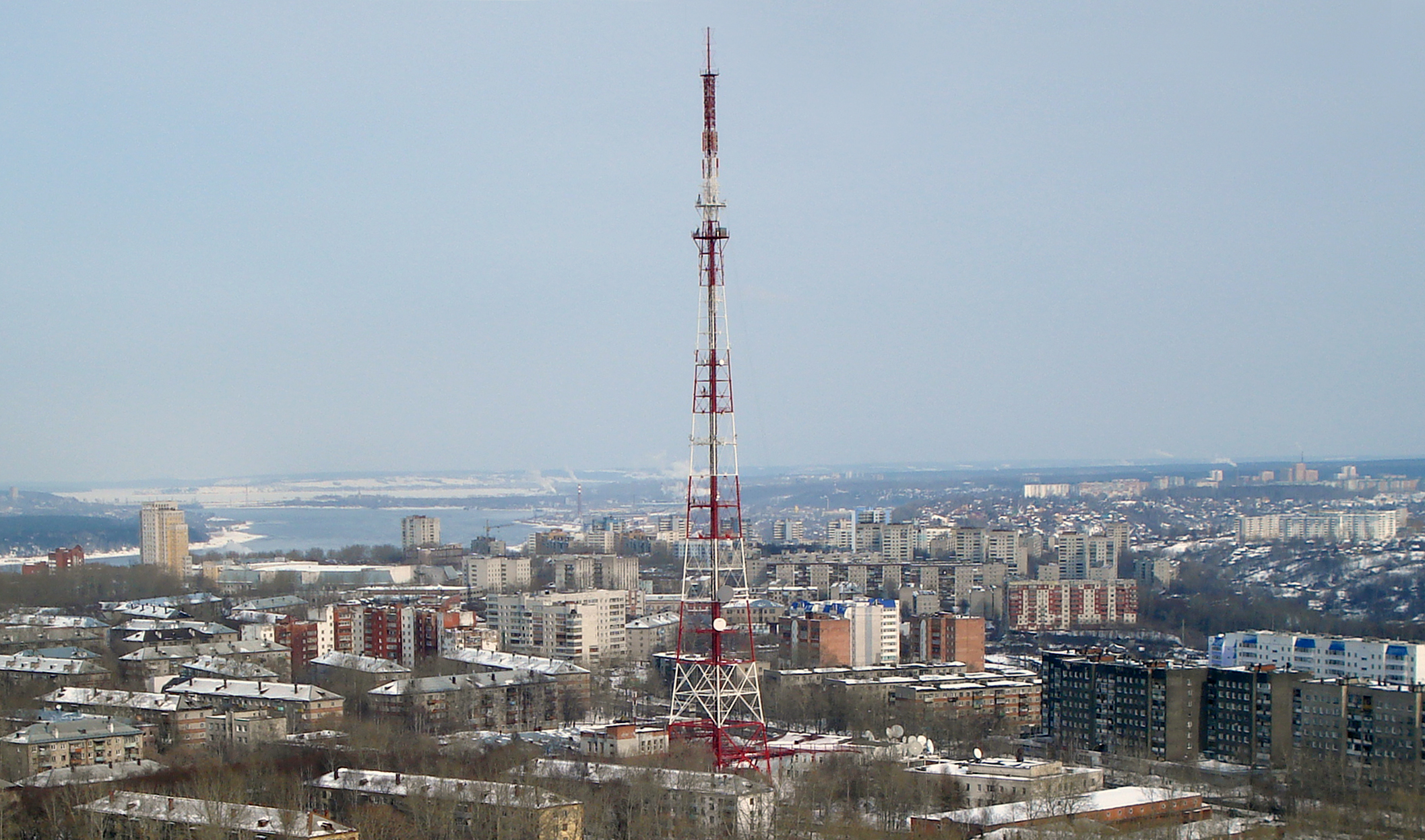 TV tower in Perm in Motoviliha area.